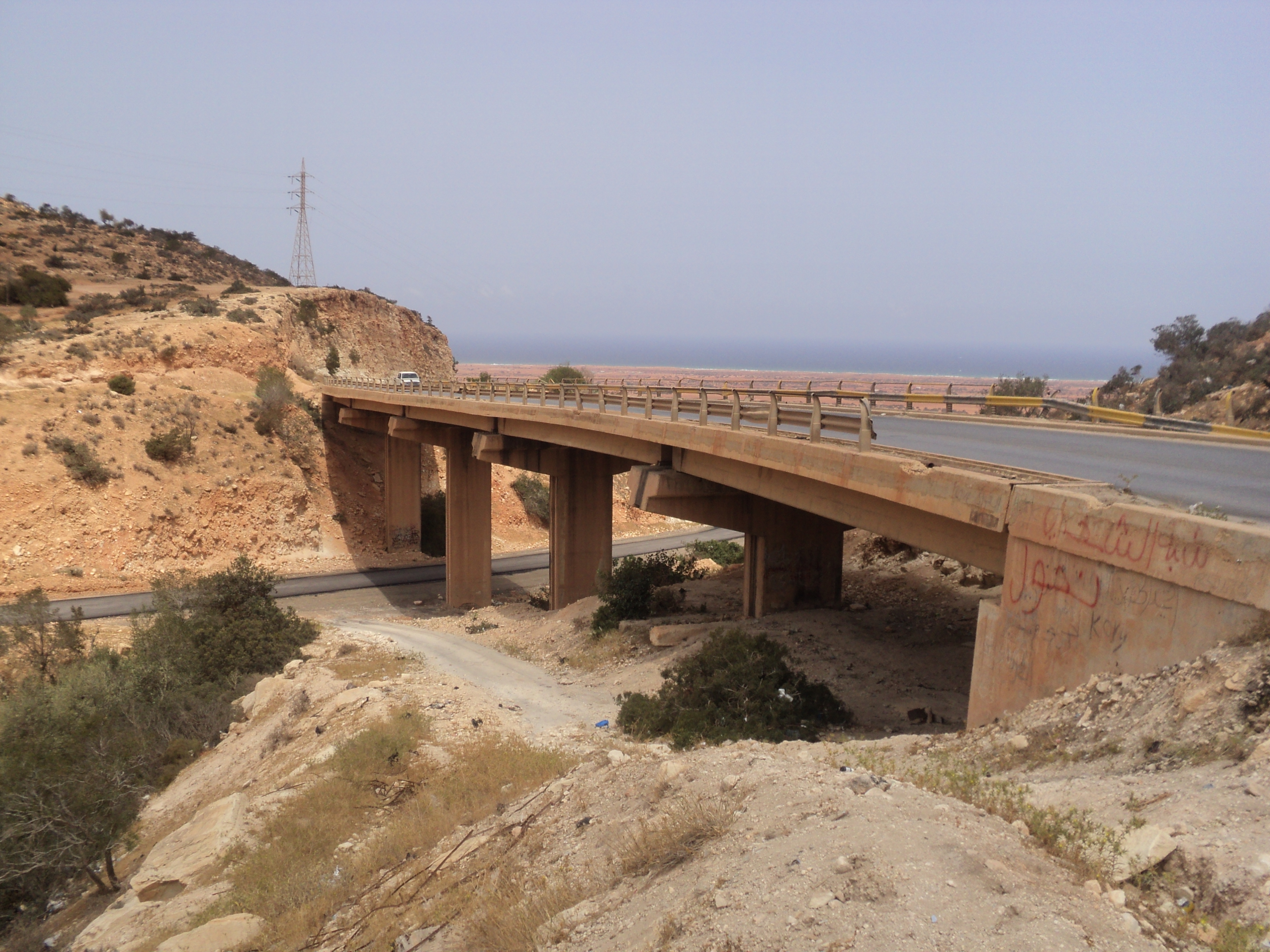 A bridge over a wadi in the Al Bakour Escarpment (Shaliouni), in the western Akhdar mountains (Jebel Akhdar) in northern 'Cyrenaica'—northeastern Libya.